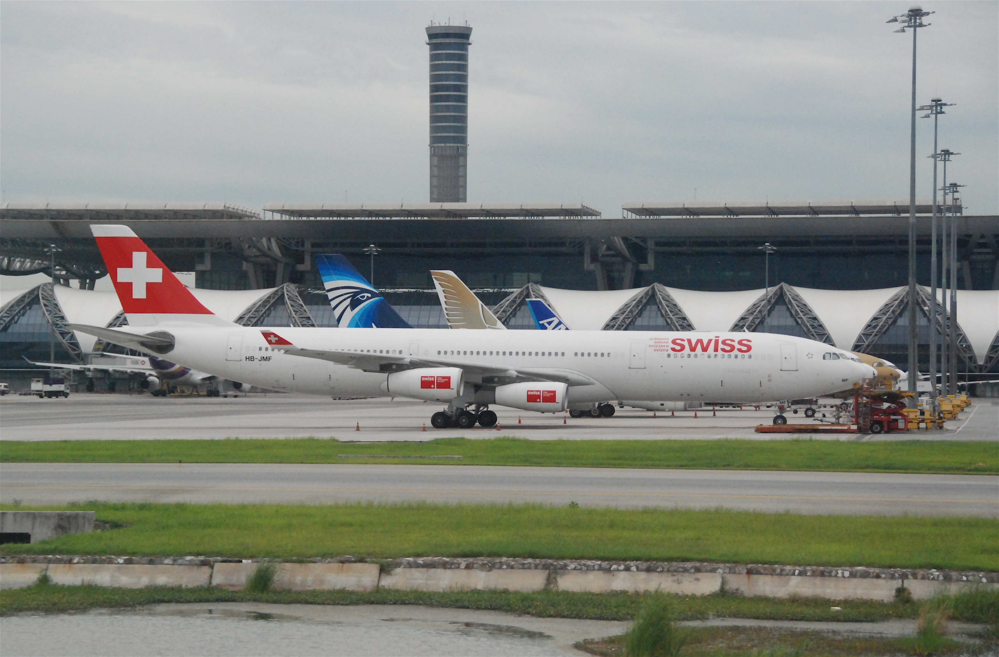 First flight: October 25, 2003 and delivered on November 28, 2003...(c/n 561). In September 2008, the widebody was baptized 'Fürstentum Liechtenstein' and is this the only aircraft in the Swiss fleet named after a foreign country/ and or city...